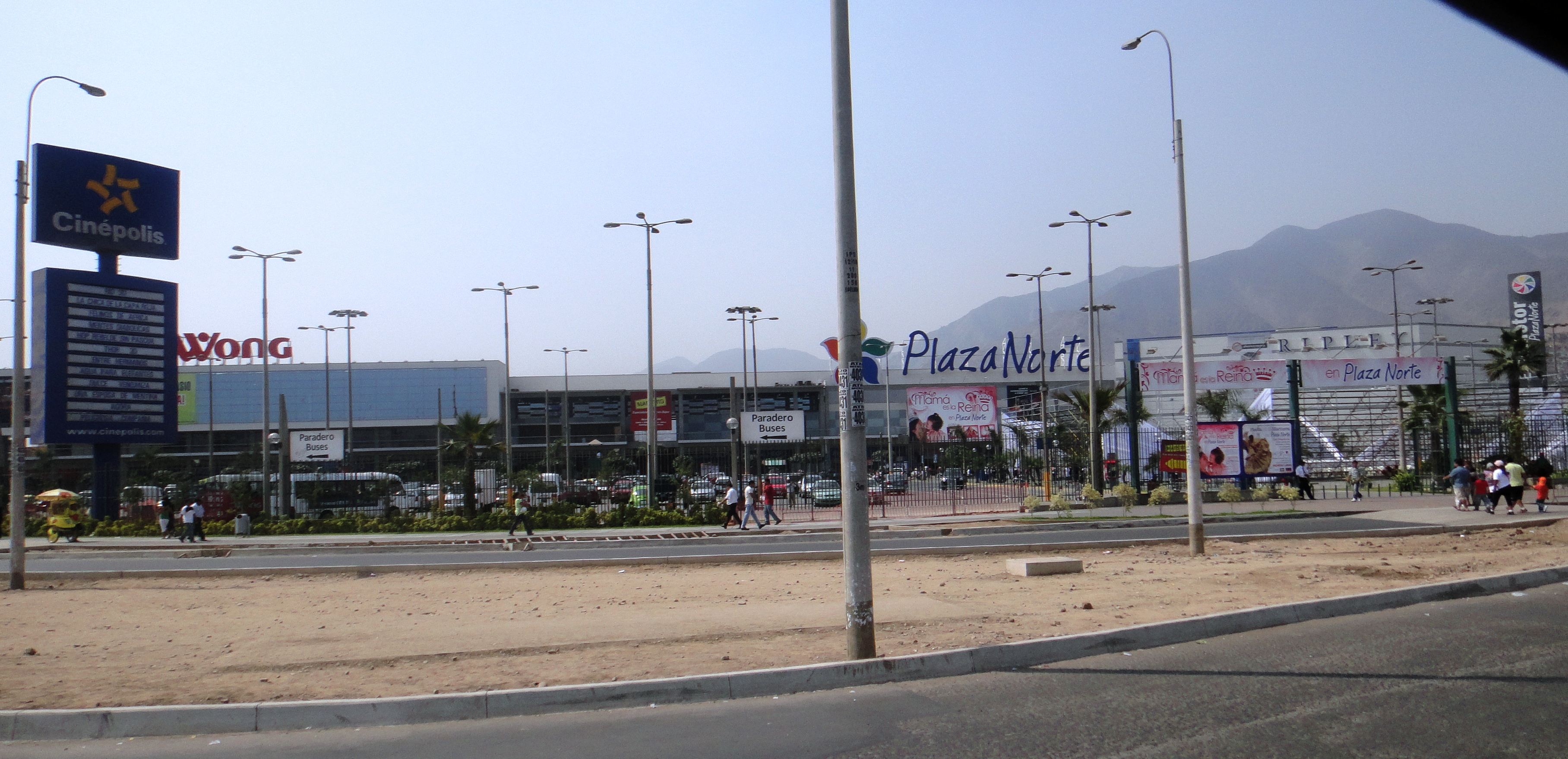 Mall Plaza Norte in Independencia District, Lima-Peru.